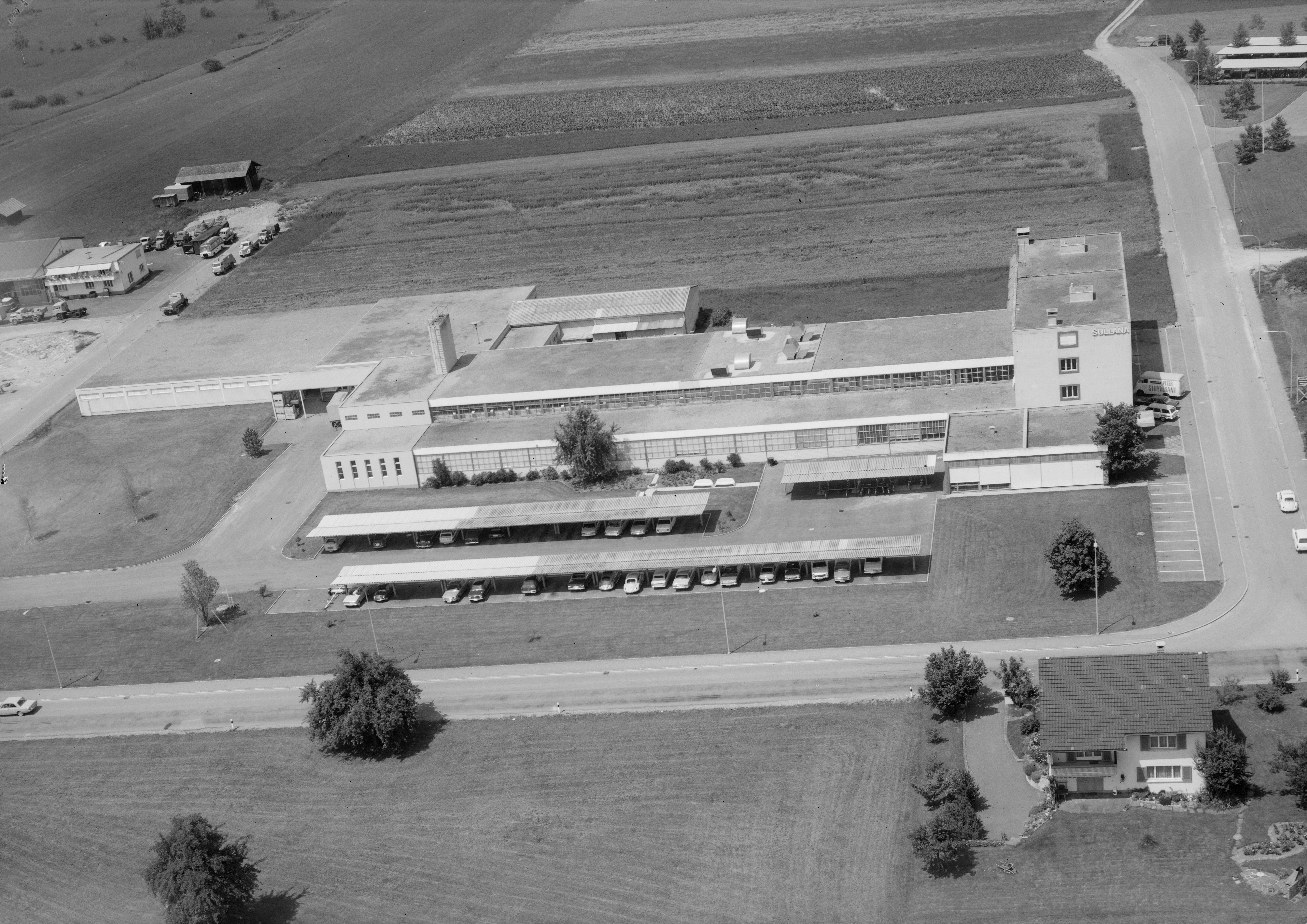 Sullana AG Wetzikon, Zigarettenfabrikation